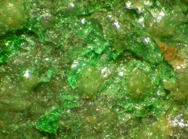 Widgiemoolthalite Locality: 132 North Mine, Widgiemooltha, Western Australia, Australia (Locality at ) Green crystals of Widgiemoolthalite on yellowish-green Gaspéite. Field of view 3 mm. Specimen and photo Leon Hupperichs.